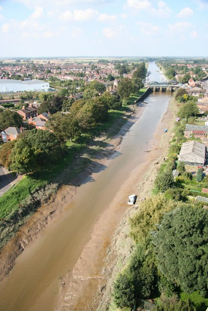 Boston Stump view - NW The Haven, Grand Sluice and River Witham from Boston Stump